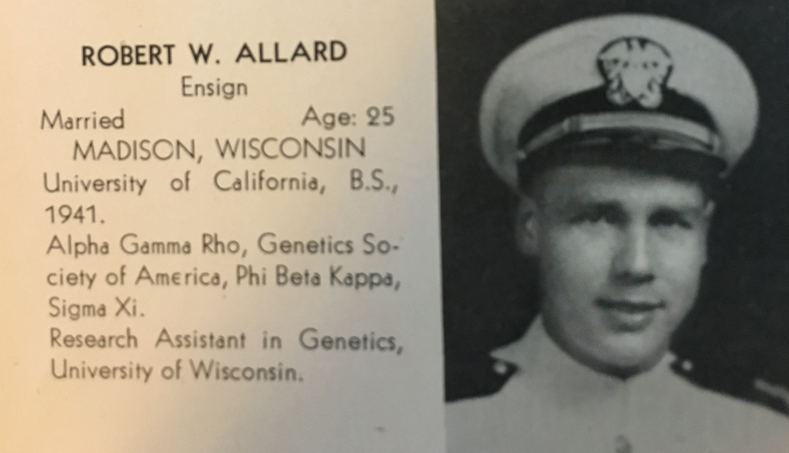 R.W. Allard as U.S. Navy Ensign, 1944